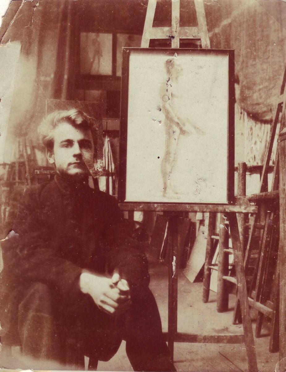 Henk de Court Onderwater in zijn atelier